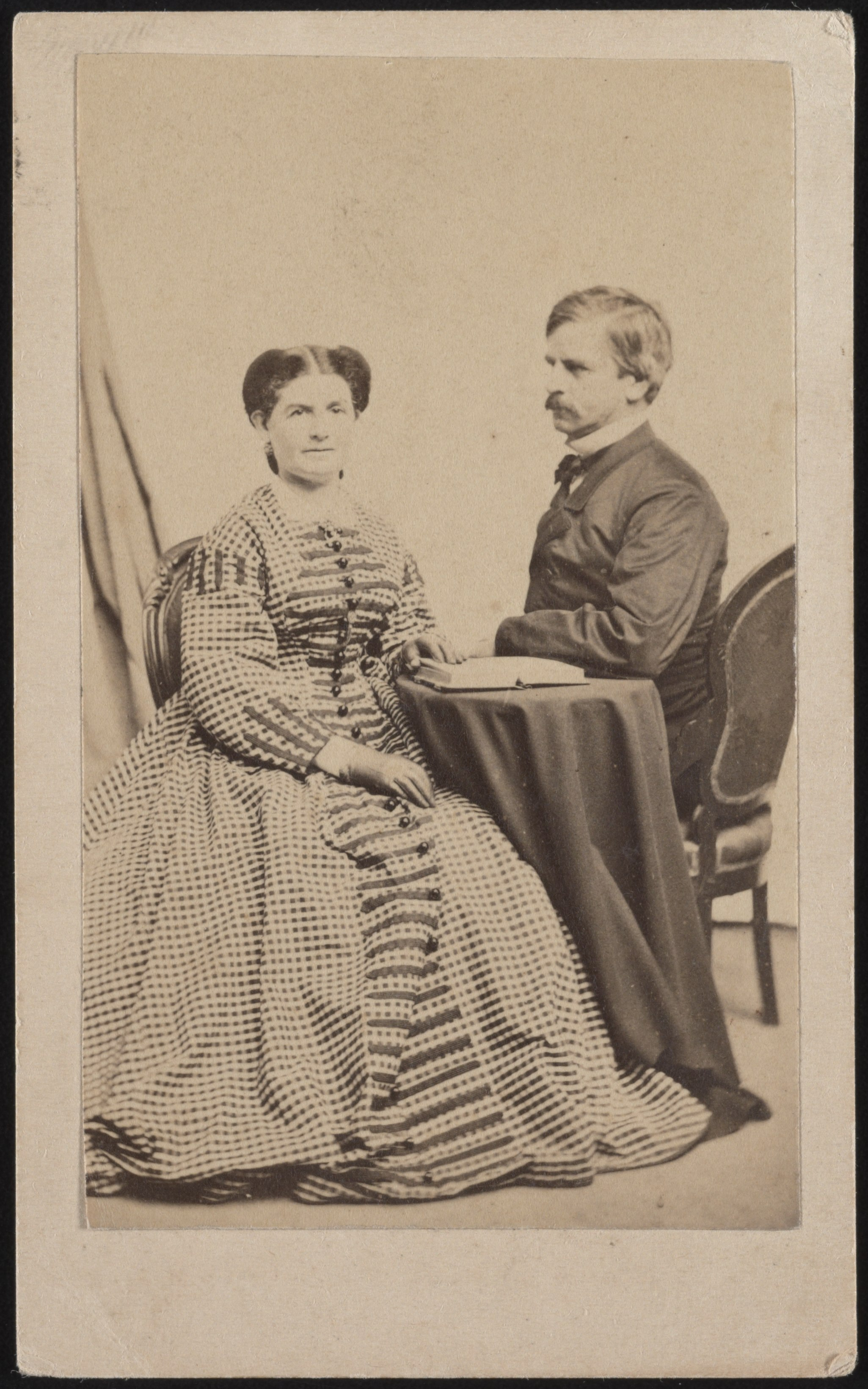 Title: Major General Nathaniel Prentiss Banks of General Staff U.S. Volunteers Infantry Regiment in uniform, with his wife Mary Theodosia Palmer Banks, who holds an open book] / Henry F. Warren, Waltham, Mass Abstract/medium: 1 photograph : albumen print on card mount ; mount 11 x 7 cm (carte de visite format)